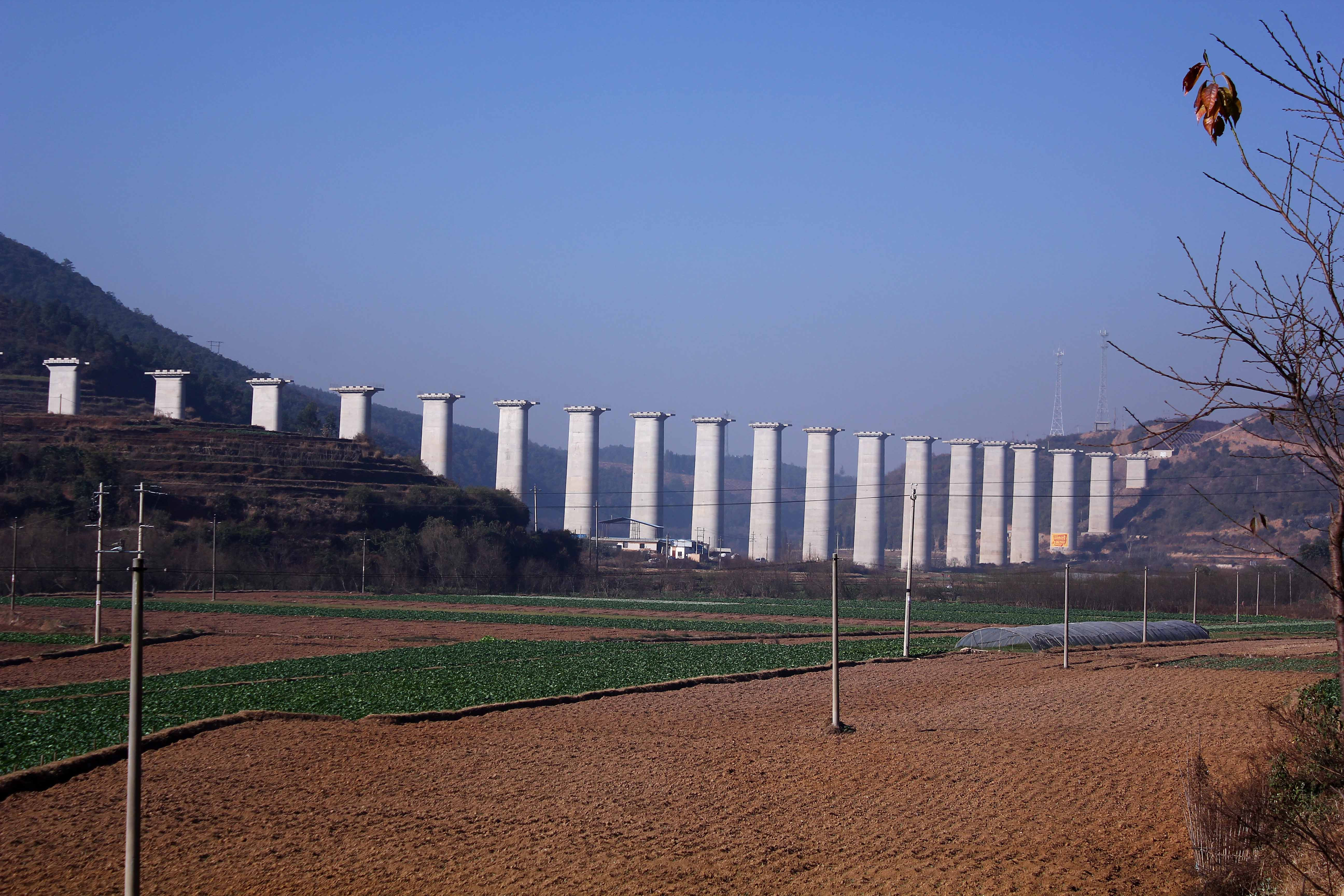 Double track under construction from Kunming to Guangtong（south part of Chengdu–Kunming Railway），photoed in Anning City，Yunnan Province，China.